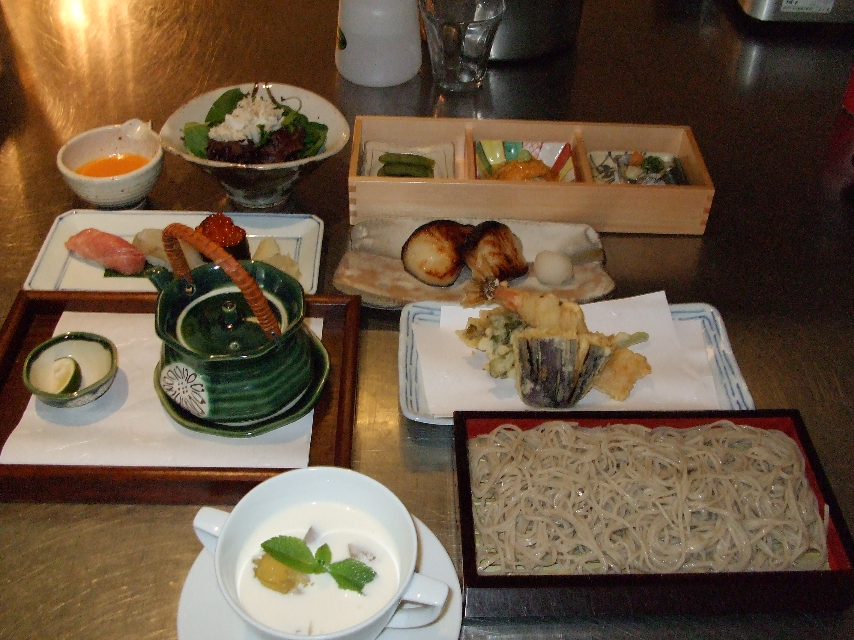 This is an image of a tasting of sobas at Matsugen Restaurant in New York.